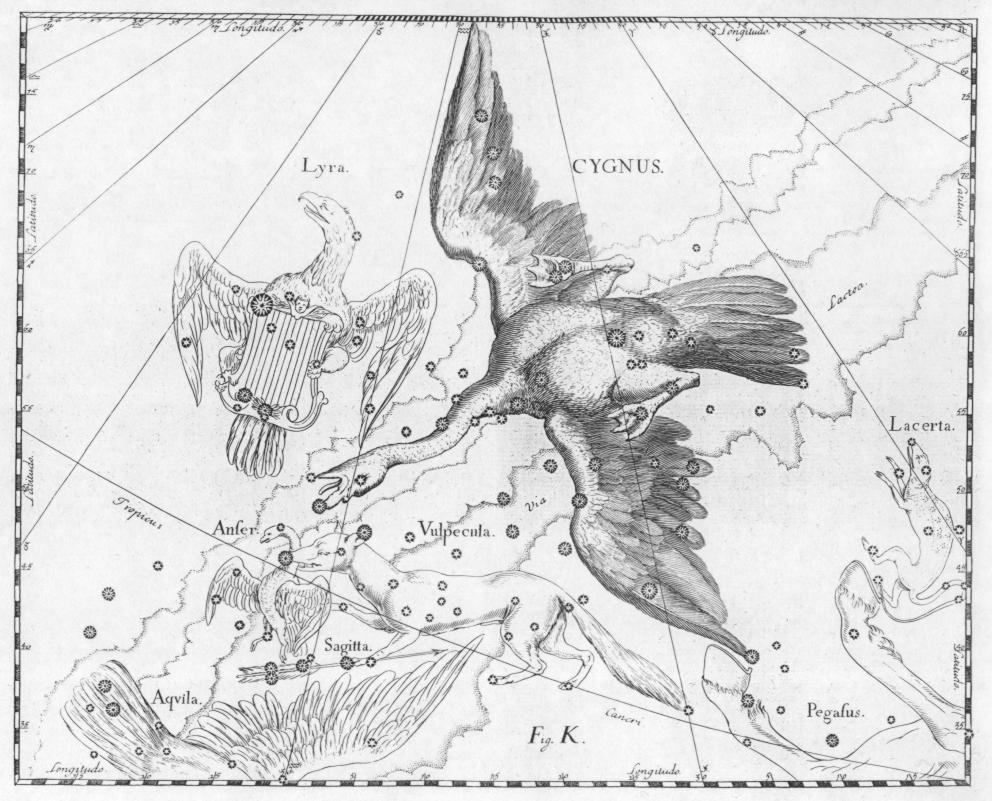 The Cygnus constellation from Uranographia by Johannes Hevelius. The view is mirrored following the tradition of celestial globes, showing the celestial sphere in a view from "ouside"